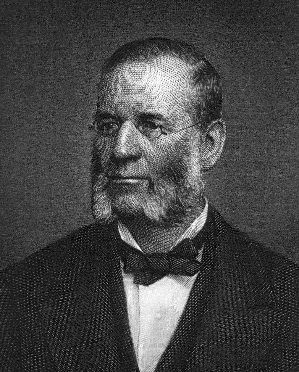 Flint, Austin 1812-1886